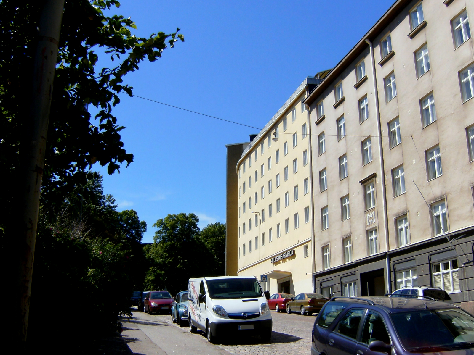 The street Castréninkatu, Kallio, Helsinki, Finland. Uphill from the street Kaarlenkatu. Middle of the summer. Sunny.